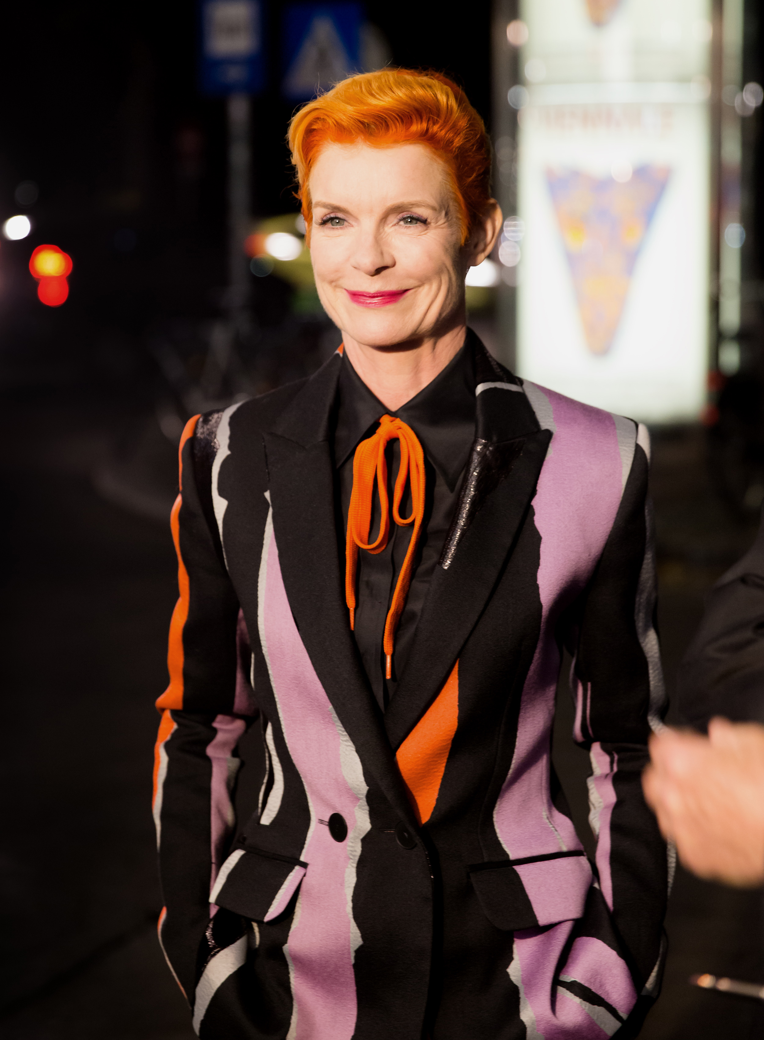 Sandy Powell, opening evening of Vienna International Film Festival 2015 at Gartenbaukino in Vienna, Austria.